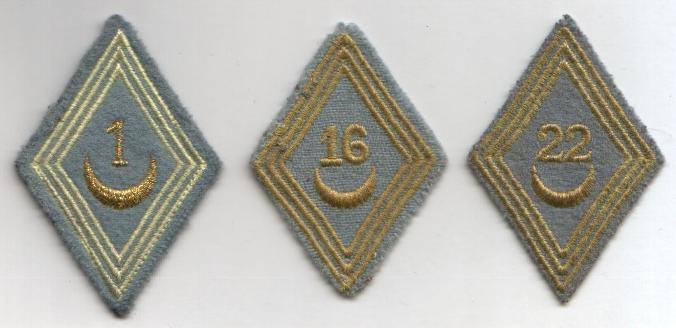 1st Rifle Regiment of Epinal (sous-officier) (NCO) - The 16th Rifle Regiment Tunisians (troop) - The 22nd Regiment of Algerian Skirmisher (troop) Crest Model 1945